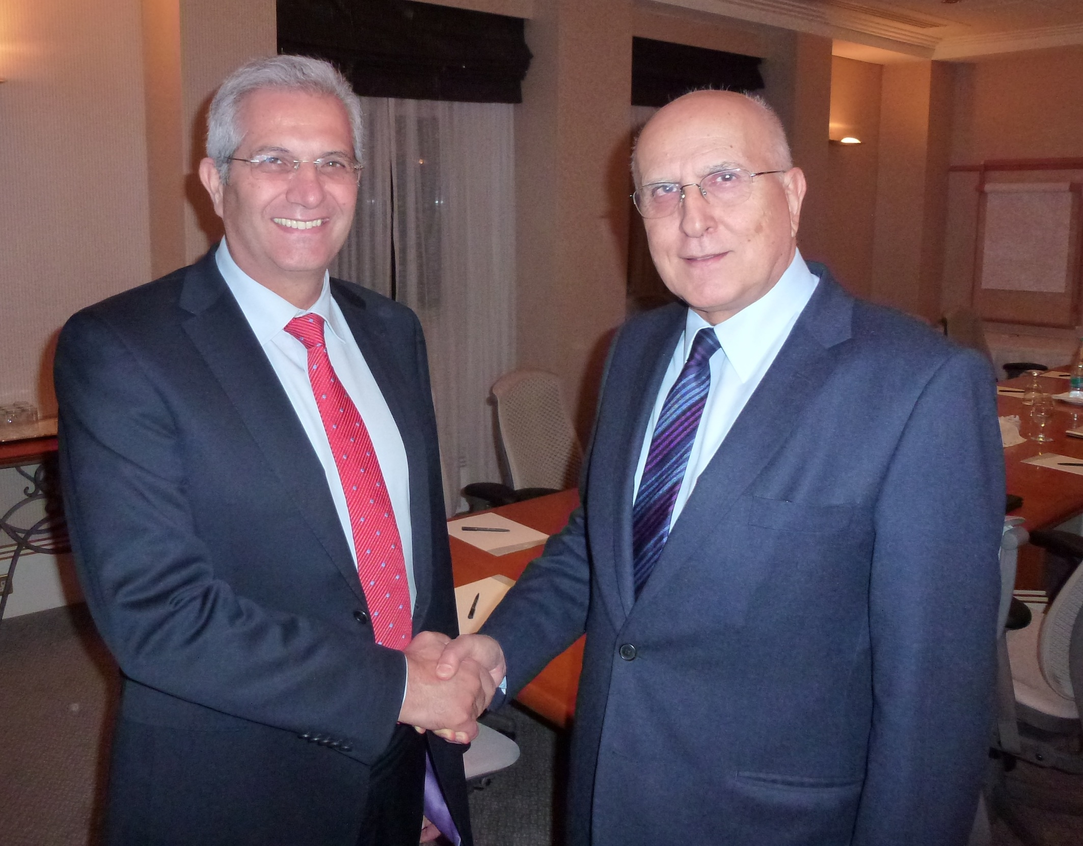 Greek Foreign Minister Stavros Dimas (to the right) and leader of the Communist party of Cyprus, AKEL, Andros Kyprianou 21 November 2011.